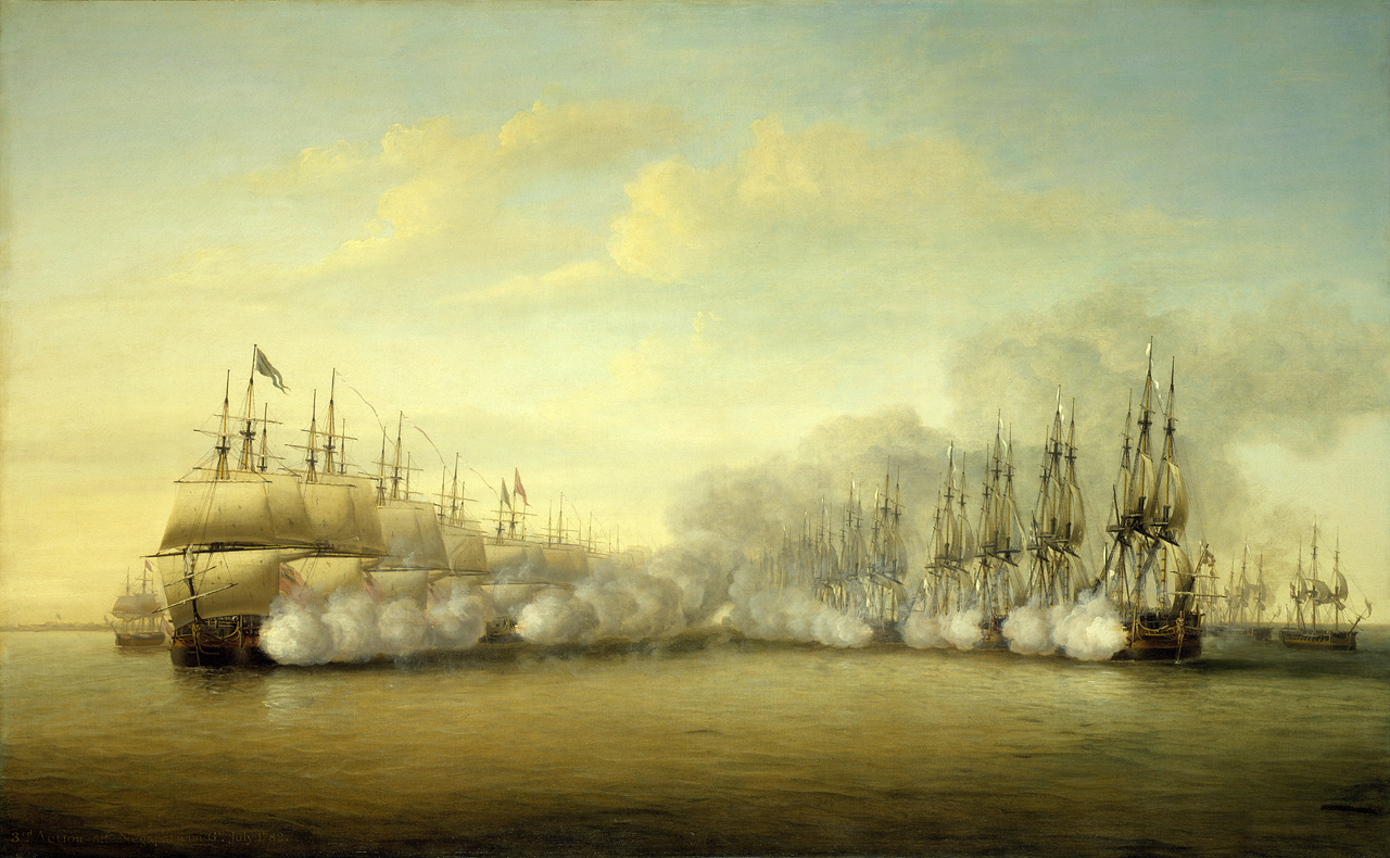 Battle of Negapatam, on 6 July 1782, on the Coromandel Coast between Suffren and Hughes wings.